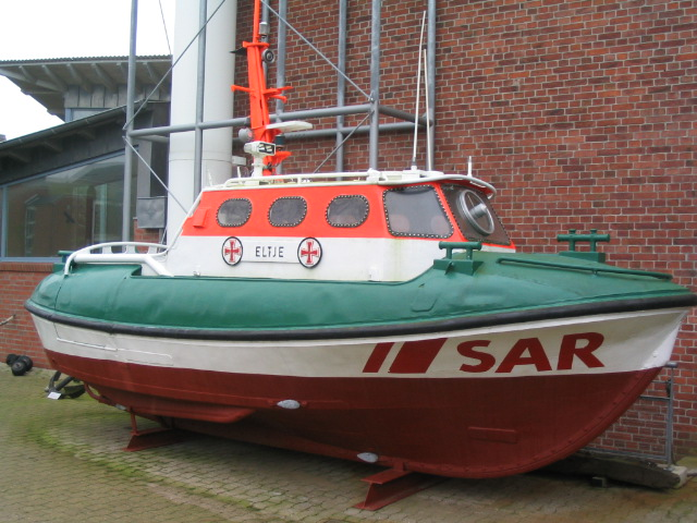 Search and Resue Boat "Eltje" of the DGzRS in Husum.